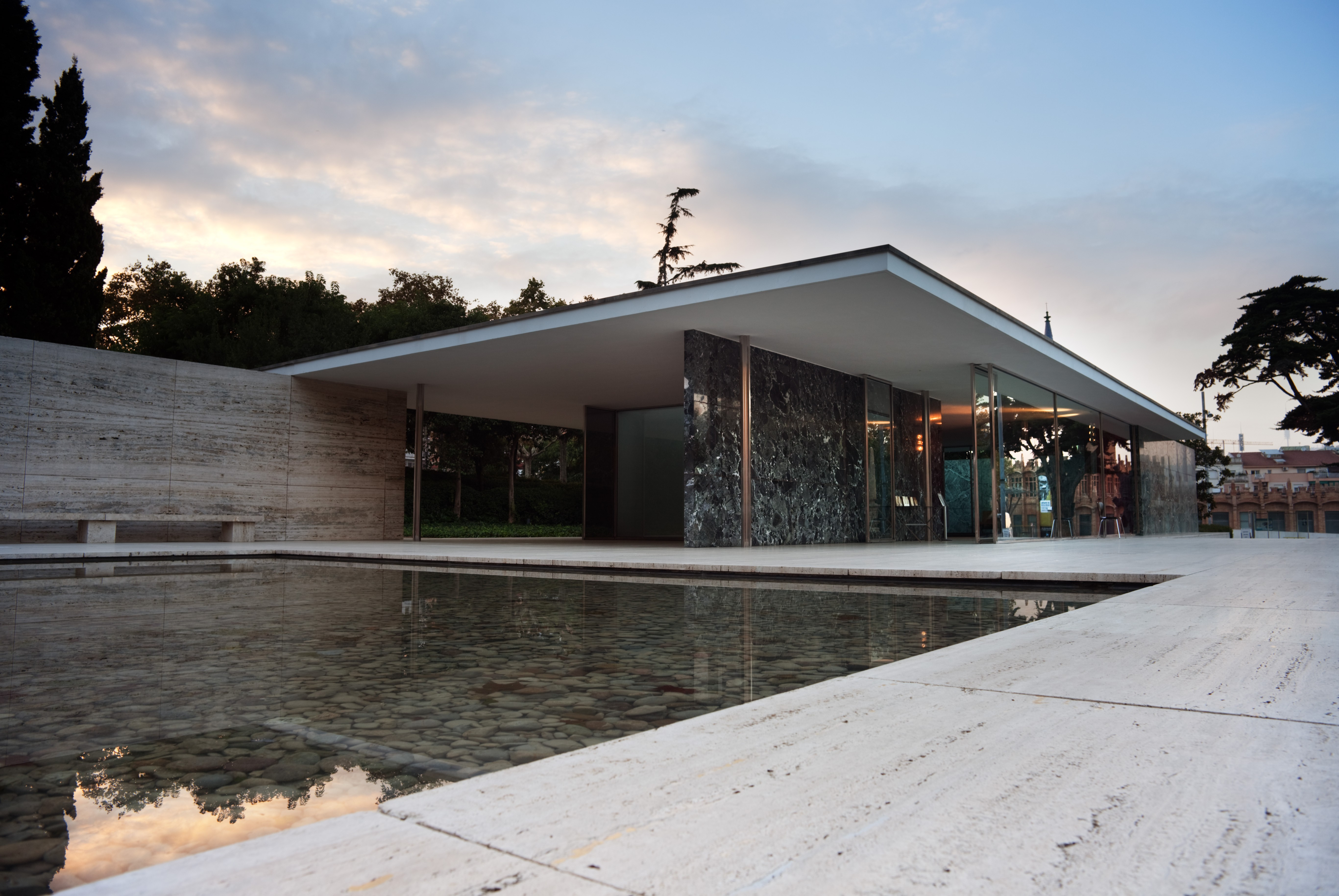 The Barcelona Pavilion, Barcelona, 14 October 2010